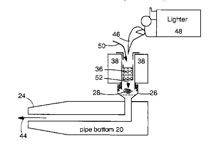 Image from U.S. Patent application 10/639,344 for a "Vaporization pipe with flame filter" 28. Tobacco, herbs or essential oils 36. Flame filter made of heat resistant porous material or a stack of metal screens (5 or so) 38. Housing surrounding flame filter